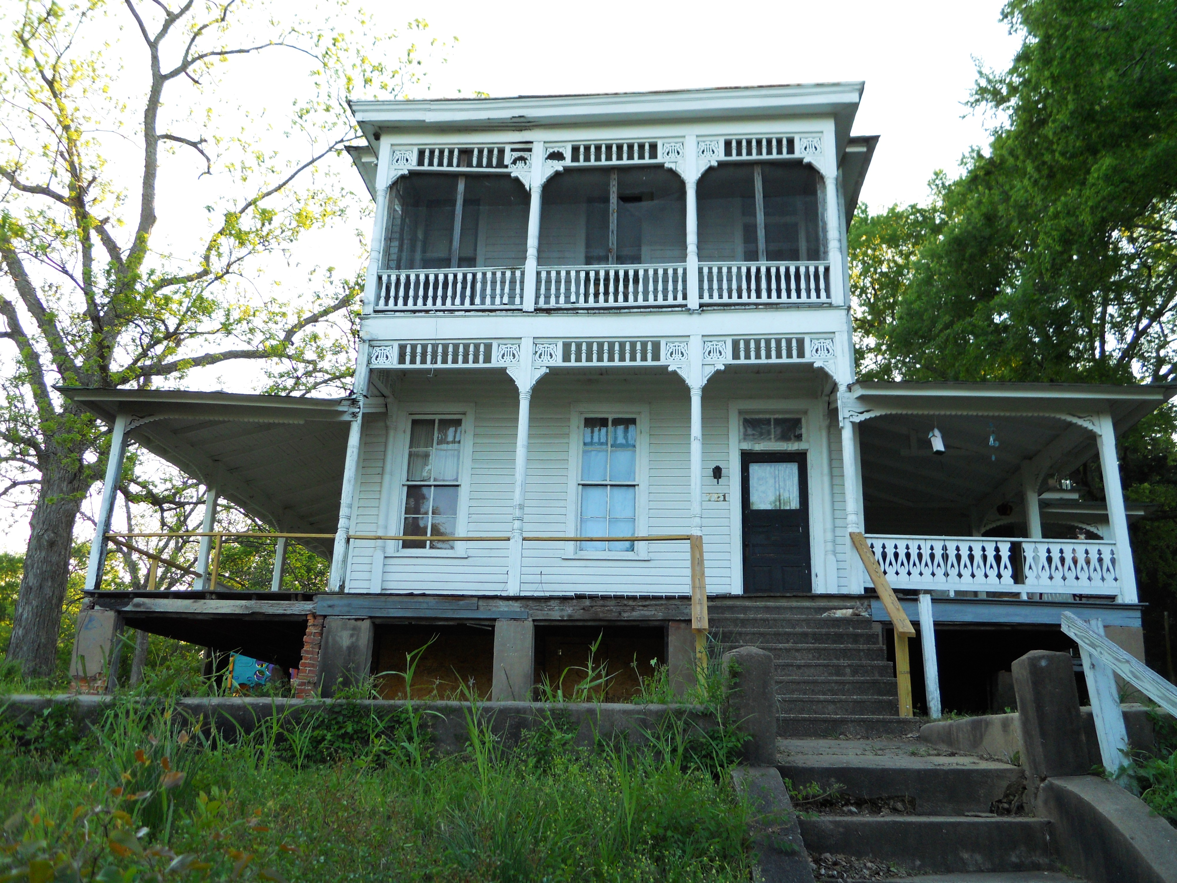 This is a photograph of the Sharpe-Monte House located in Phenix City, AL.